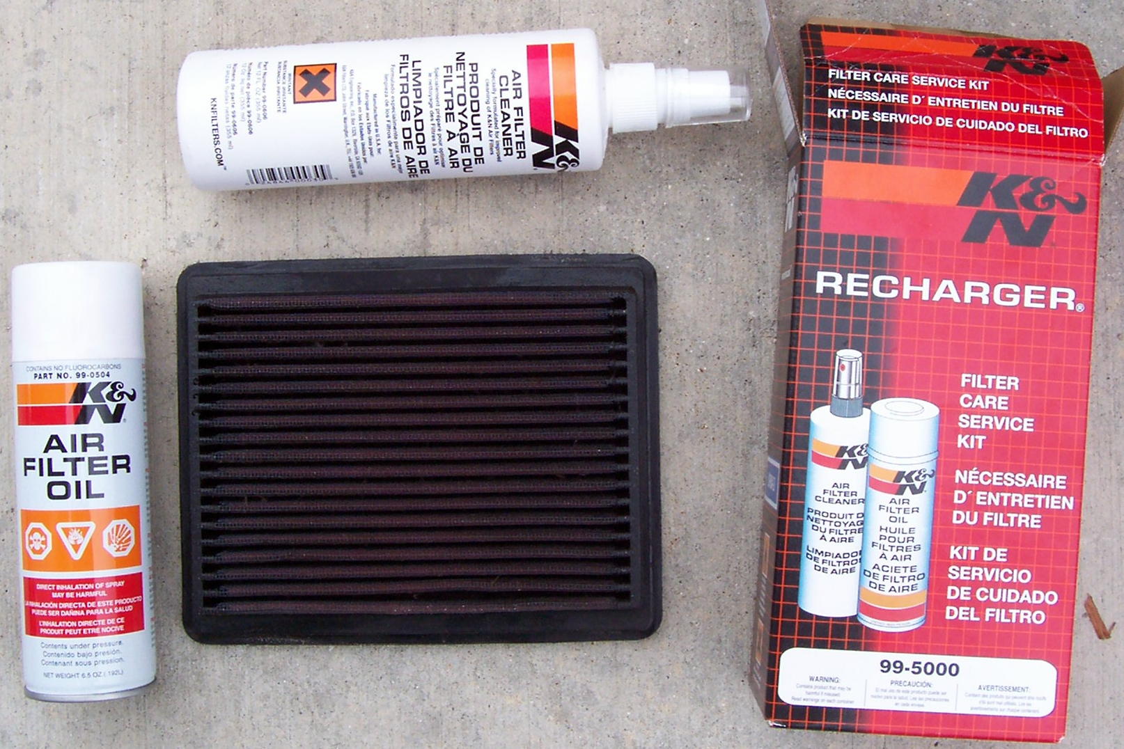 A K&N Engineering, Inc. air filter for a 2002 Chevrolet Cavalier, plus a recharge kit.